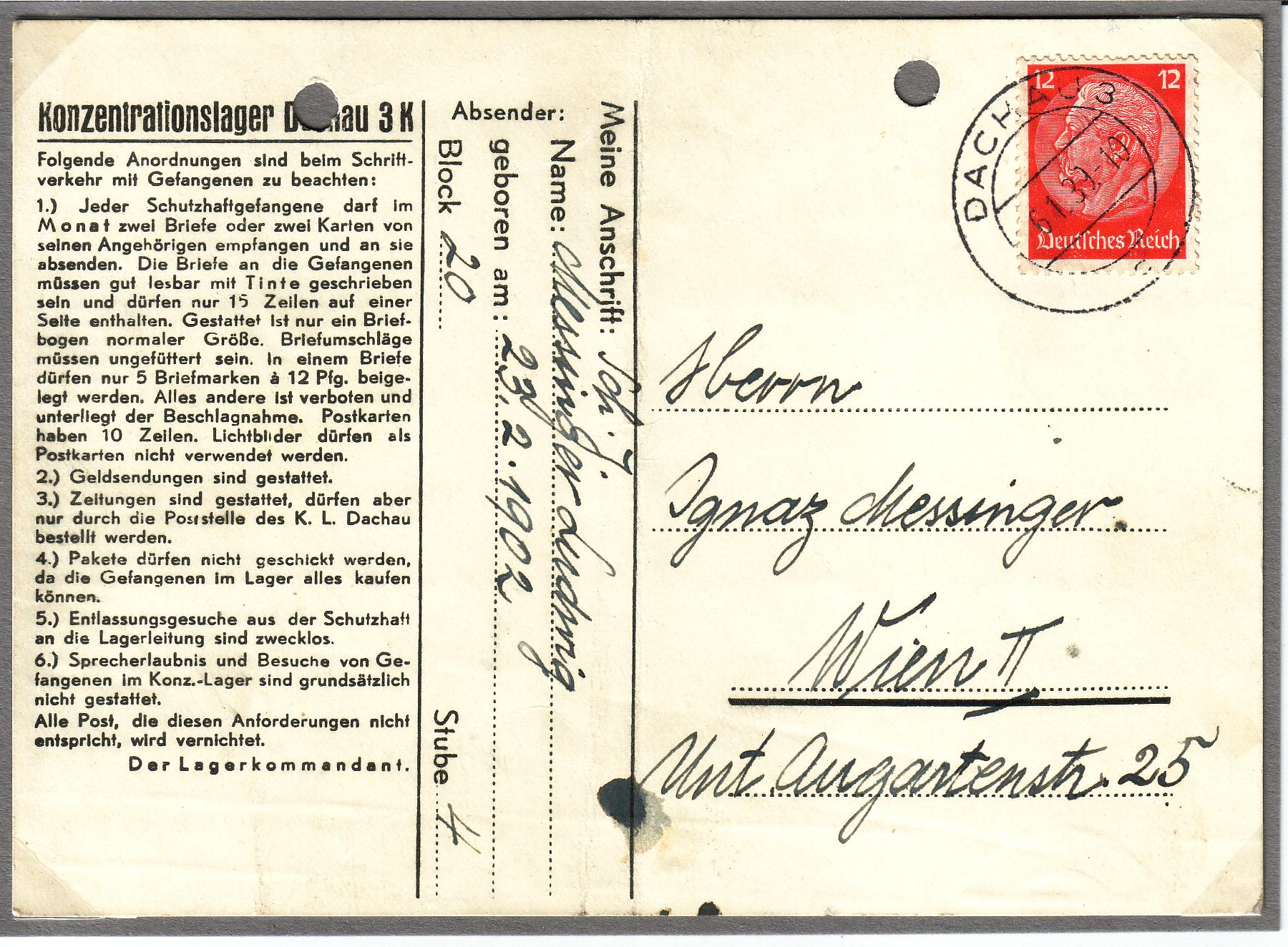 Postcard from a prisoner at Dachau concentration camp, postmarked January 1, 1939 from Dachau 3. The text on the left of the card contains the rules for correspondence with a prisoner. Each prisoner was allowed two letters or cards a month. Letters had to be legible, in ink, 15 lines and only one page. The paper had to be a "normal" size. Envelopes could not be lined (with paper). Stamps could be sent, a maximum of five at 12 pfennigs each. Postcards were restricted to 10 lines, no pictures allowed. Money could be sent. Newspapers could be sent, but only through the Dachau post office. Packages were not allowed "since the prisoners can buy everything at the camp". Number 5 states, "Requests to the camp command for release from protective custody are futile." Number 6 states that permission to speak with or visit prisoners is categorically forbidden. The final sentence advises that all mail that does not adhere to the rules will be destroyed.